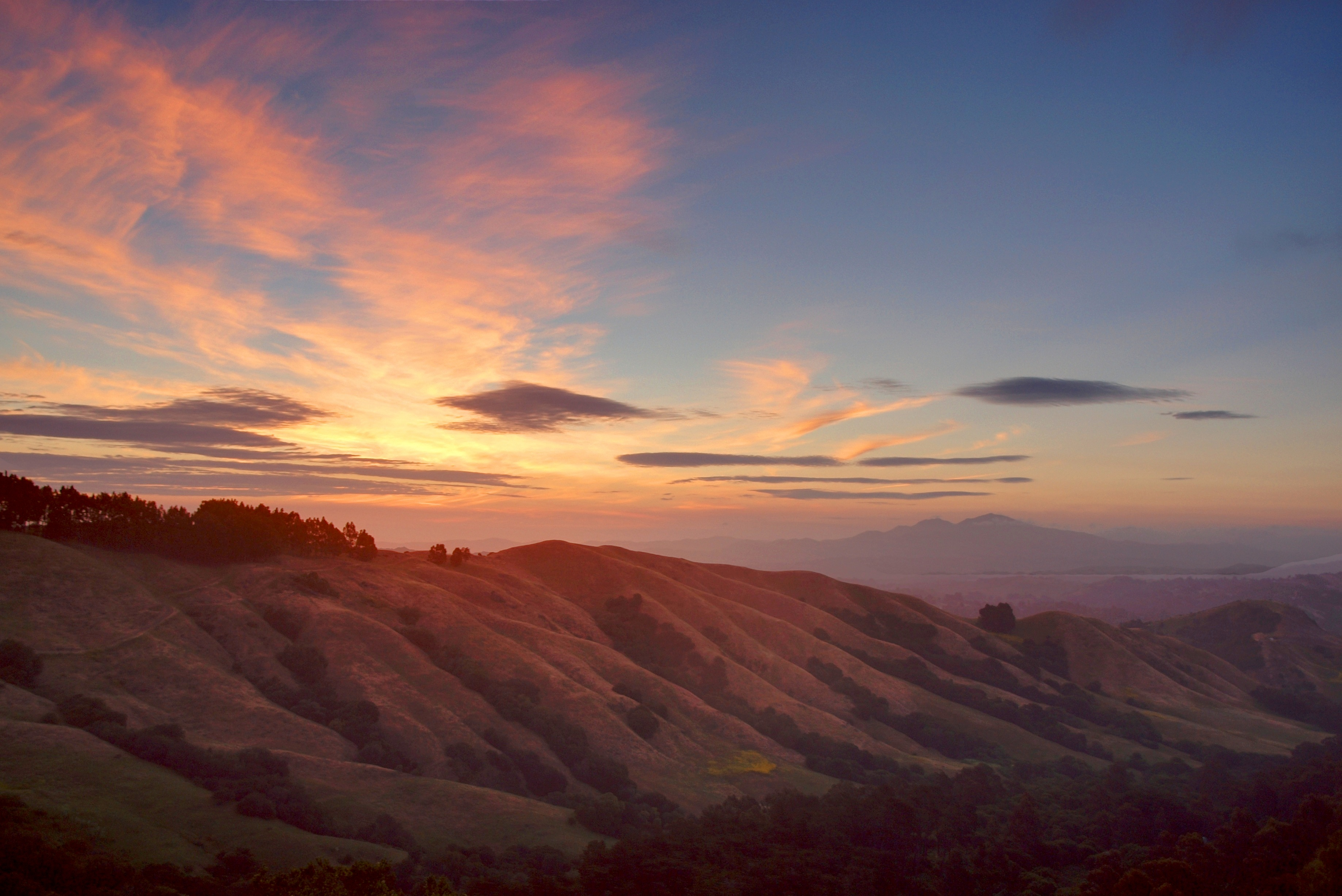 On rare occasions I get rewarded for having to stay at the lab all night working on broken experiments I know aren't going to succeed anyways. Bay Area Ridge Trail near Grizzly Peak Blvd, Olympus 14-42 @ 14mm, f/3.5. Several exposures merged with hugin+enfuse, significant post-processing.